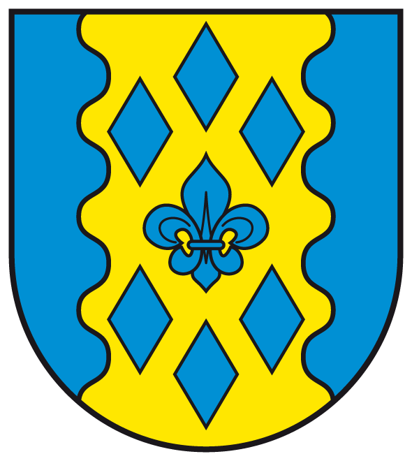 Coat of Arms of Elbe-Parey